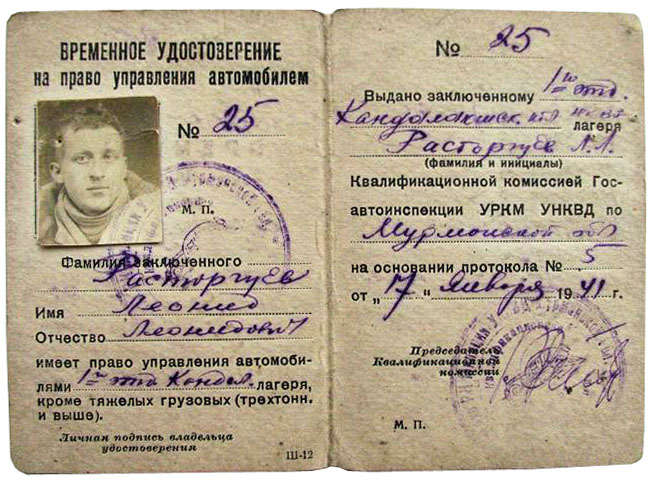 Drivers licence for Kandalaksha corrective labor camp prisoner (in Russian). 1941, January.